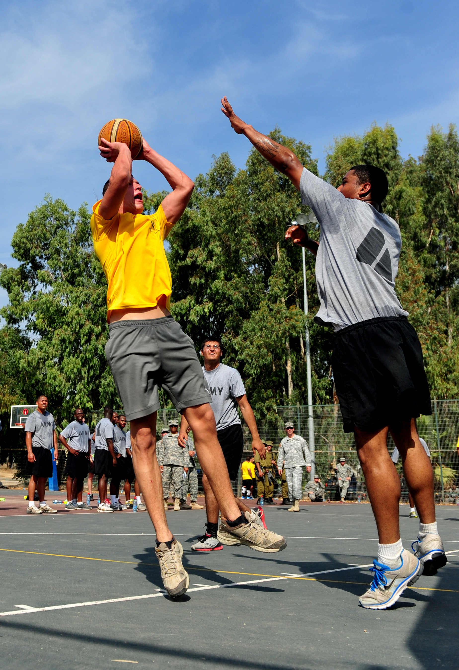 U.S. Soldiers with the 5th Battalion, 7th Air Defense Artillery Regiment and Israeli soldiers compete in a basketball game during a field competition as part of Austere Challenge 2012 in Hazor, Israel, Nov. 1, 2012. Austere Challenge 2012 is a three-week bilateral exercise designed to increase air defense interoperability between the United States and Israel.